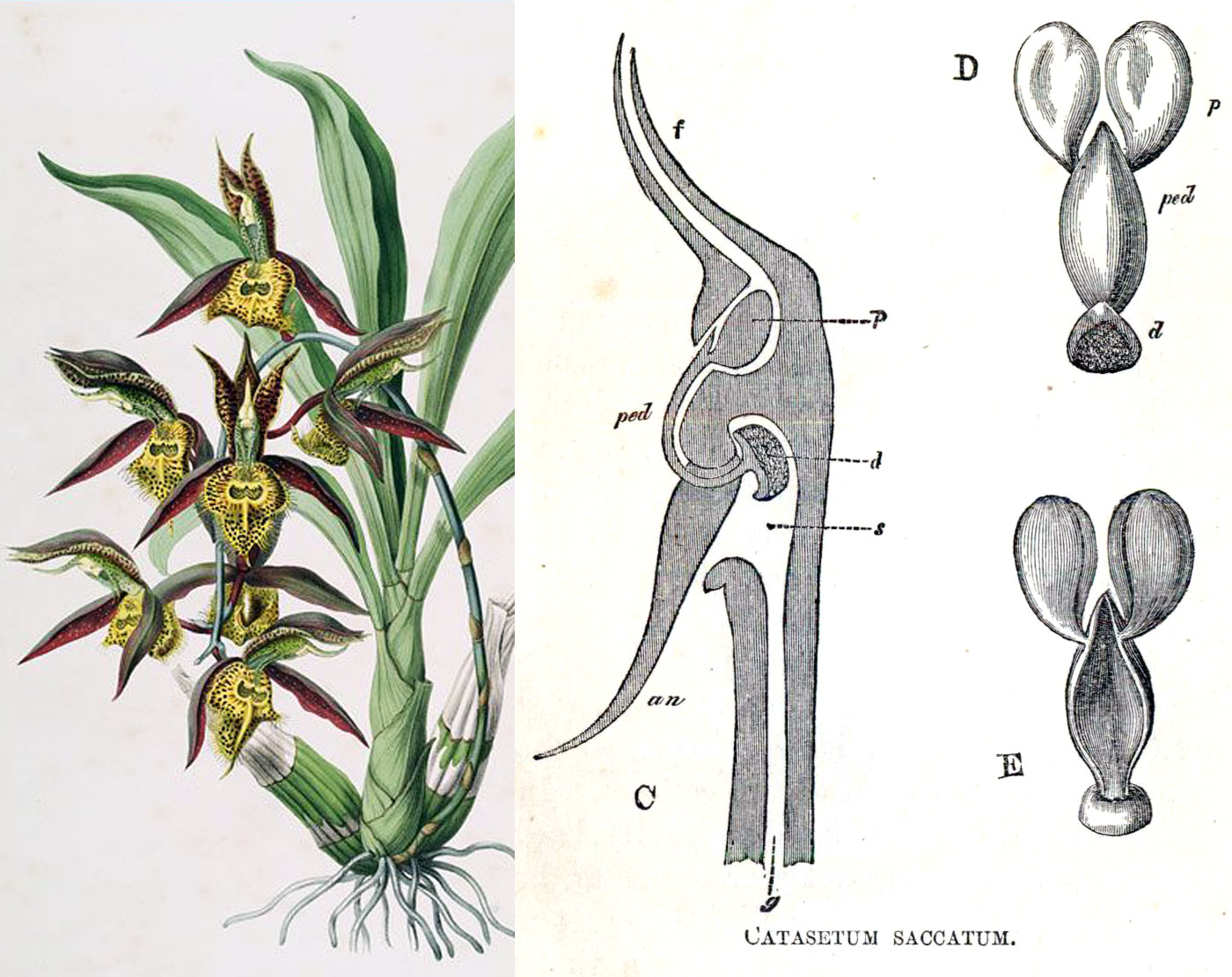 Figure 29 from the 1877 edition of Charles Darwin's Fertilisation of Orchids. Scanned from a copy of the work at the University of Massachusetts Amherst.Illustration of Catasetum saccatum